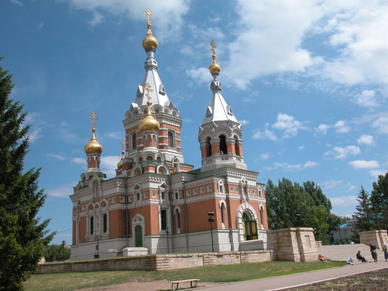 Church of Christ the Saviour in Uralsk, Kazakhstan (1891). Photo by User:ArsenG who uploaded it to Russian Wikipedia as Image:Christ Church.JPG under the license